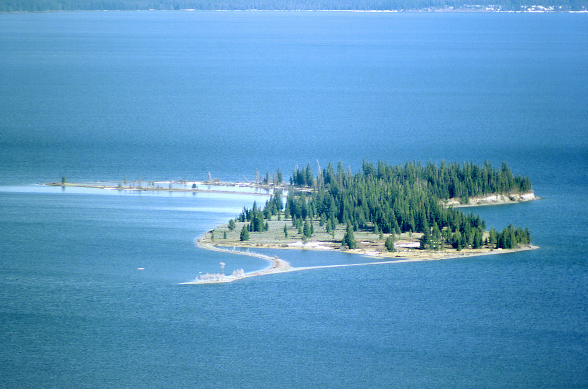 This is Stevenson Island in Yellowstone Lake.